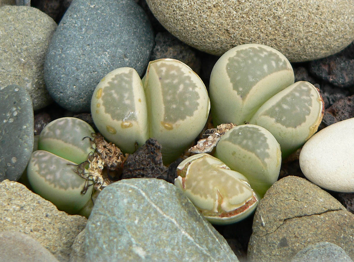 Photo of Lithops herrei at the University of California Botanical Garden